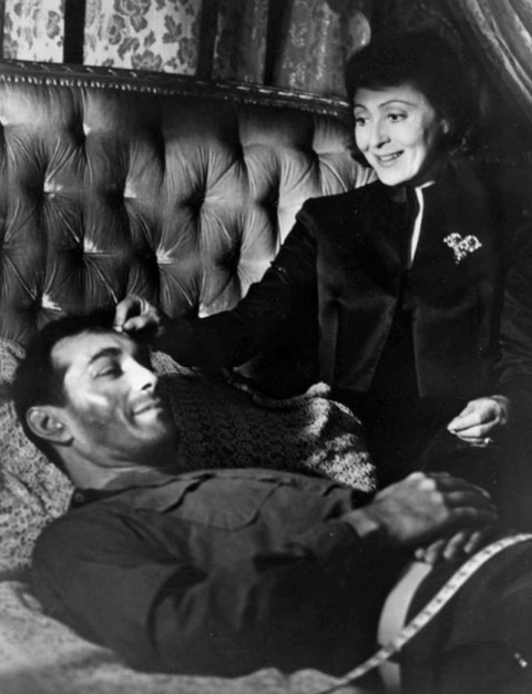 Photo of Rick Jason and Luise Rainer in an episode from Combat!.